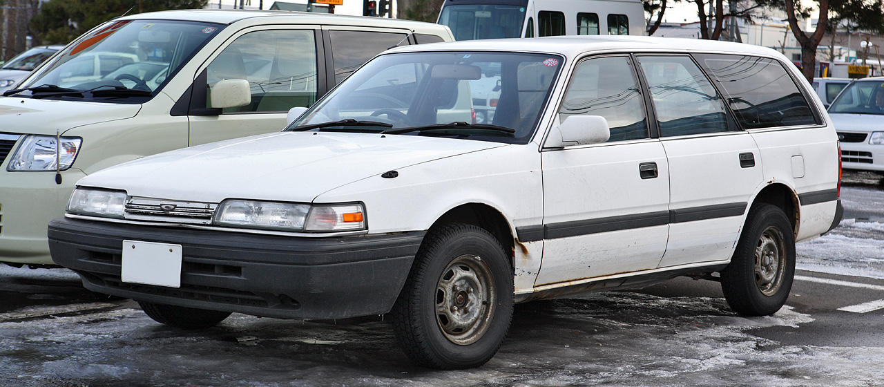 Mazda Capella Cargo Van 1.6